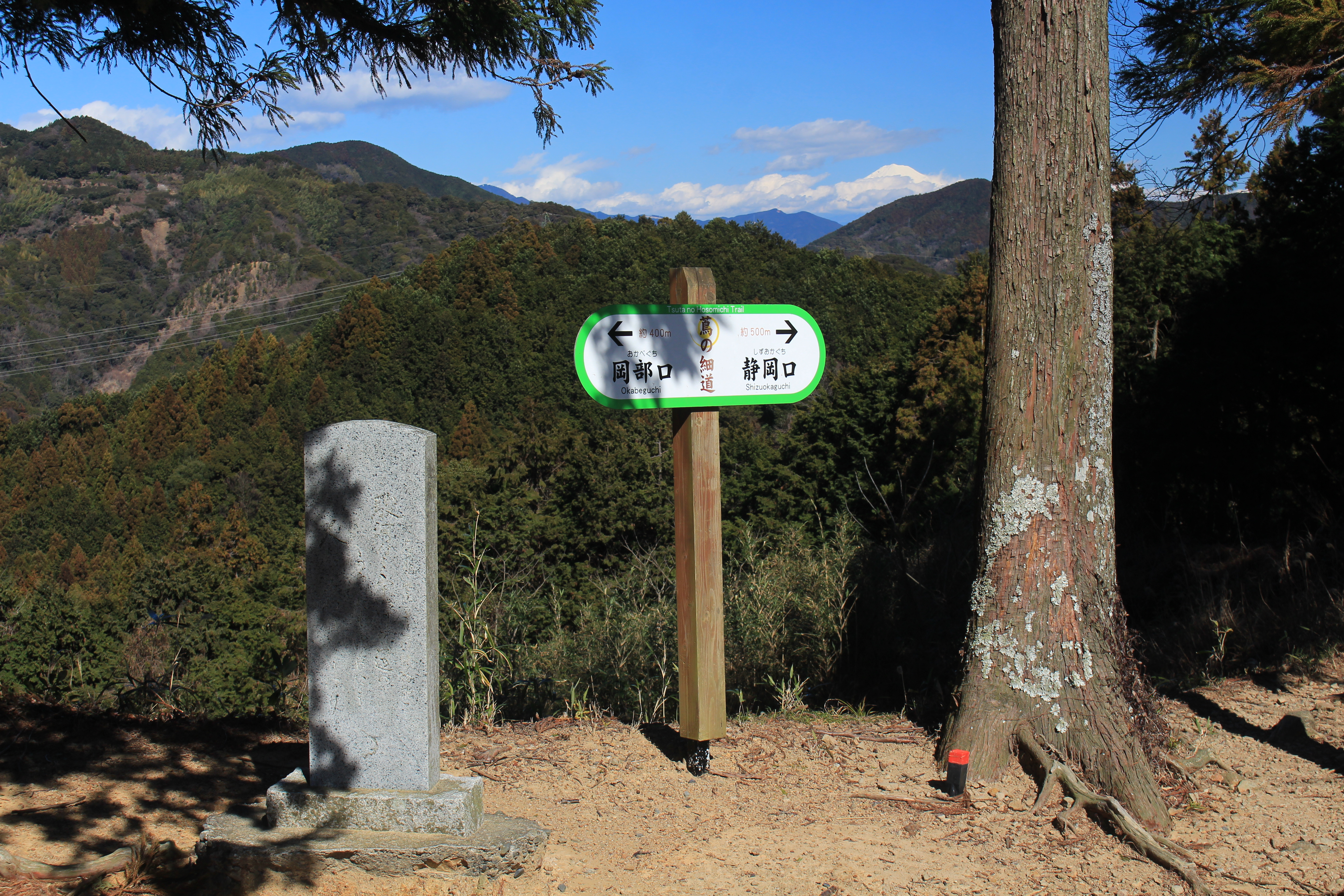 Utsunoya Pass of Tsuta no Hosomichi between Suruga-ku, Shizuoka and Fujieda in Shizuoka prefecture, Japan.